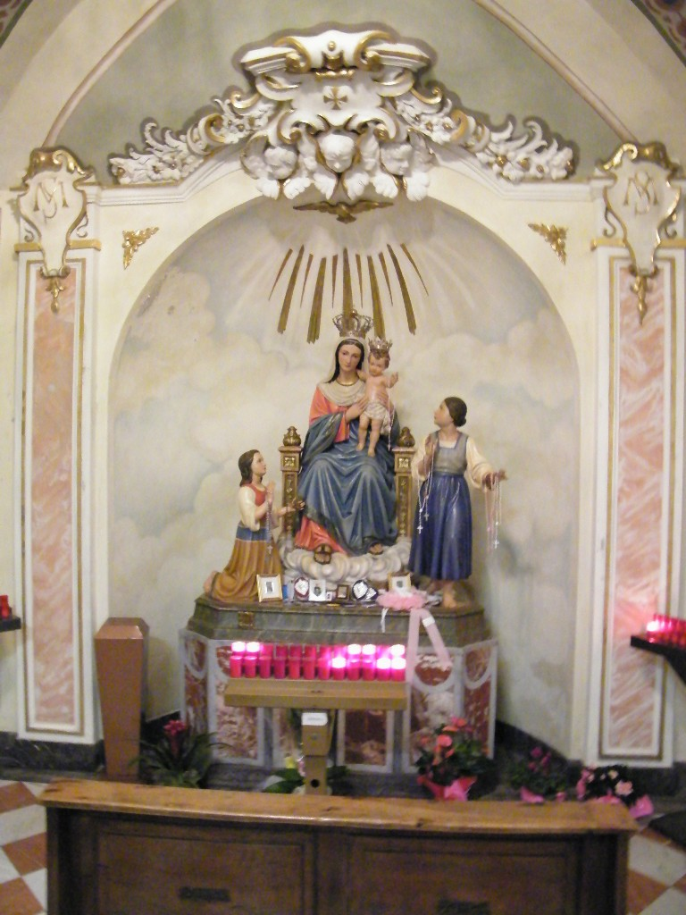 St Mary of Grace. Ardesio